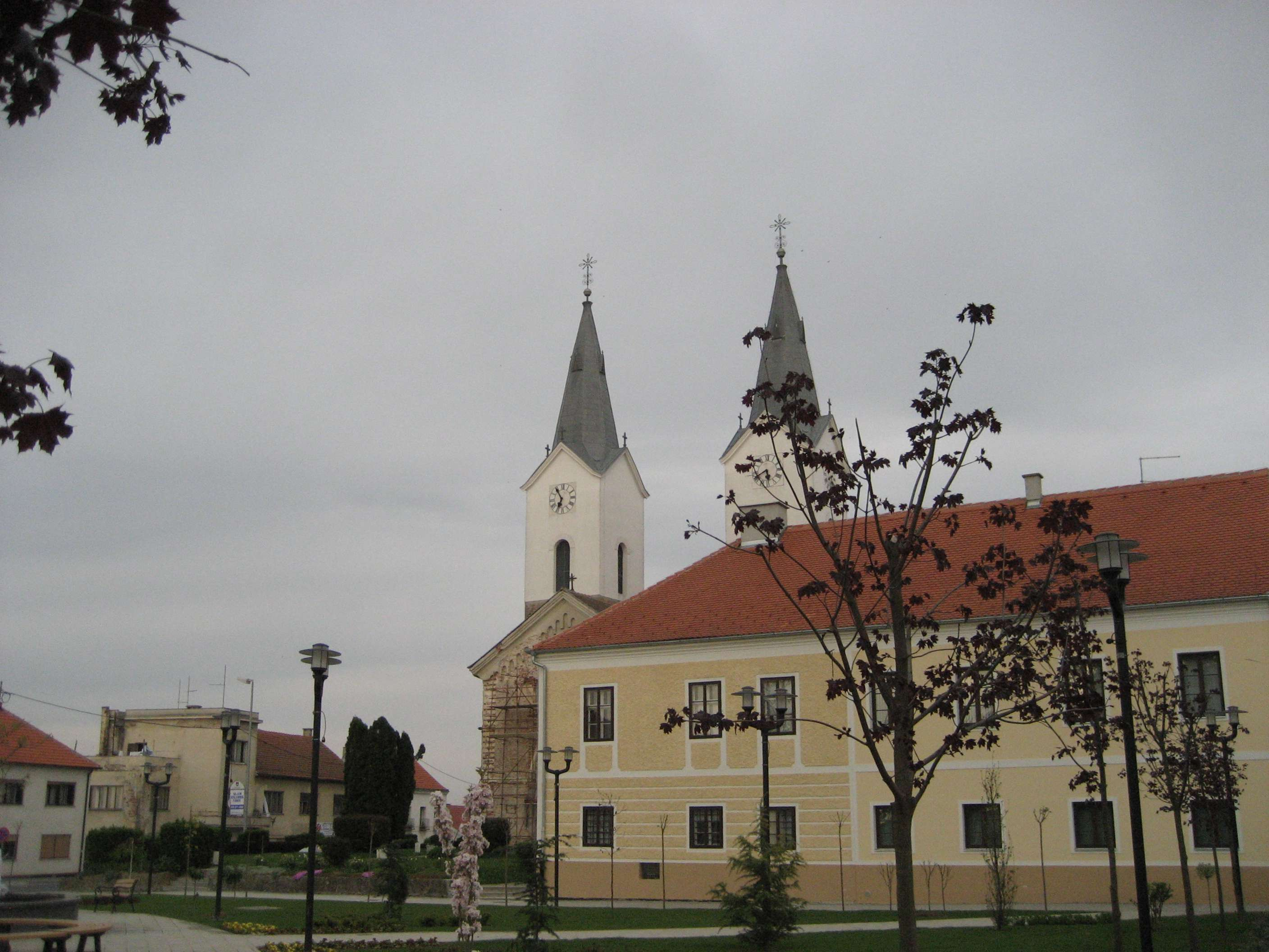 Cazmanski Kaptol